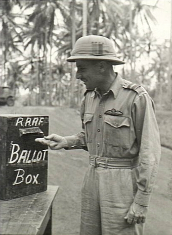 Milne Bay, Papua. c. 1943-08. Air Commodore J. E. Hewitt OBE, Air Officer Commanding No. 9 Operational Group RAAF, makes history for the Victorian electorate of Fawkner by lodging the first vote of the services on the jungle front in the Australian federal election.